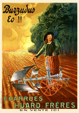 Poster Charrue Huard